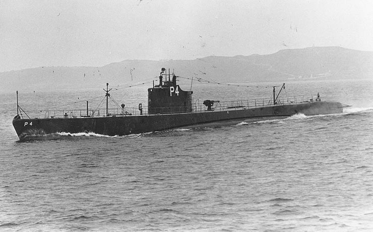 USS Tarpon (SS-175) underway on the surface, circa 1937. Original caption: “Photo # NH 41921 USS Tarpon underway, circa 1937” — removed caption